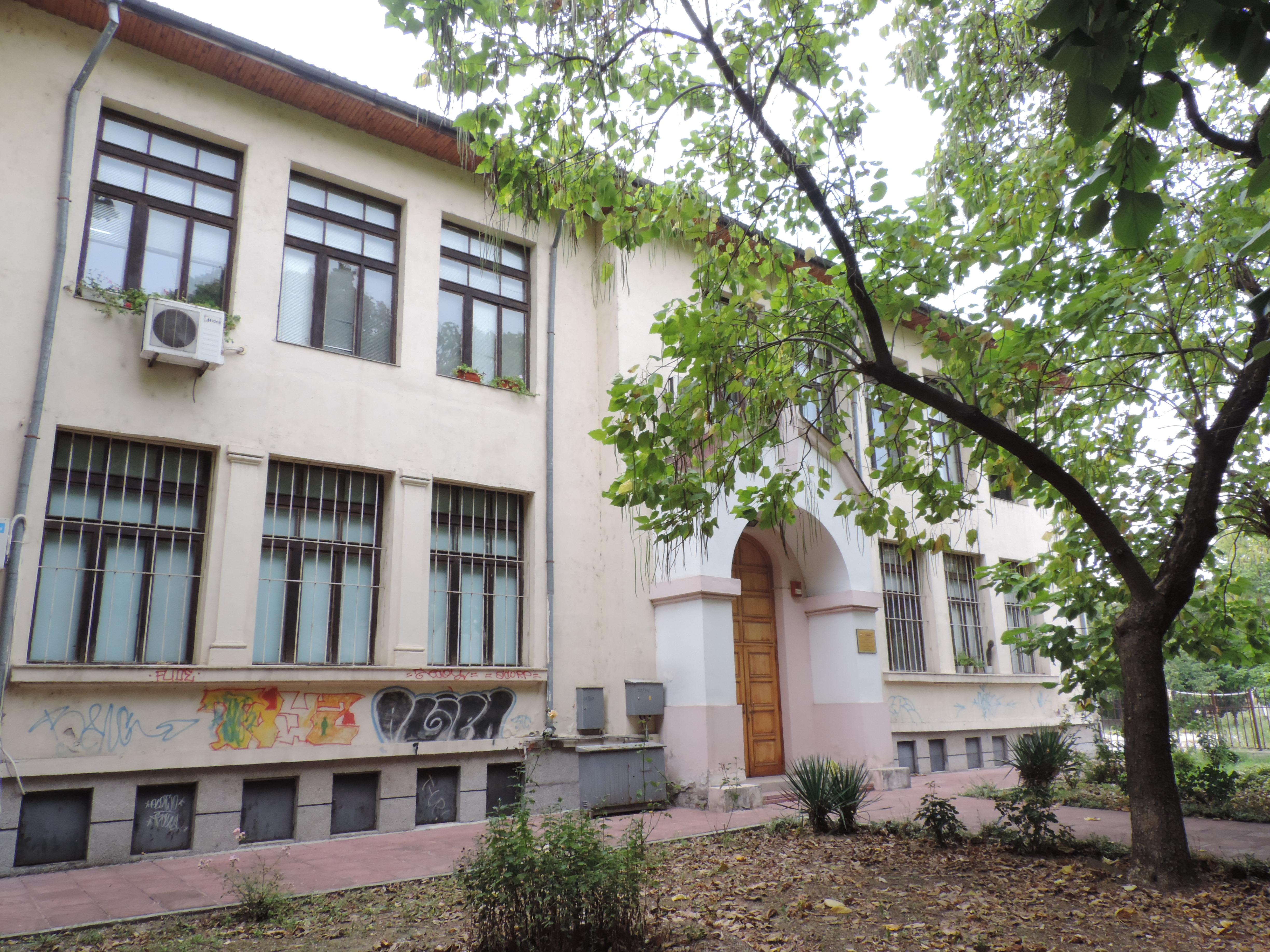 Territorial directorate of Bulgarian State Archives in Vidin